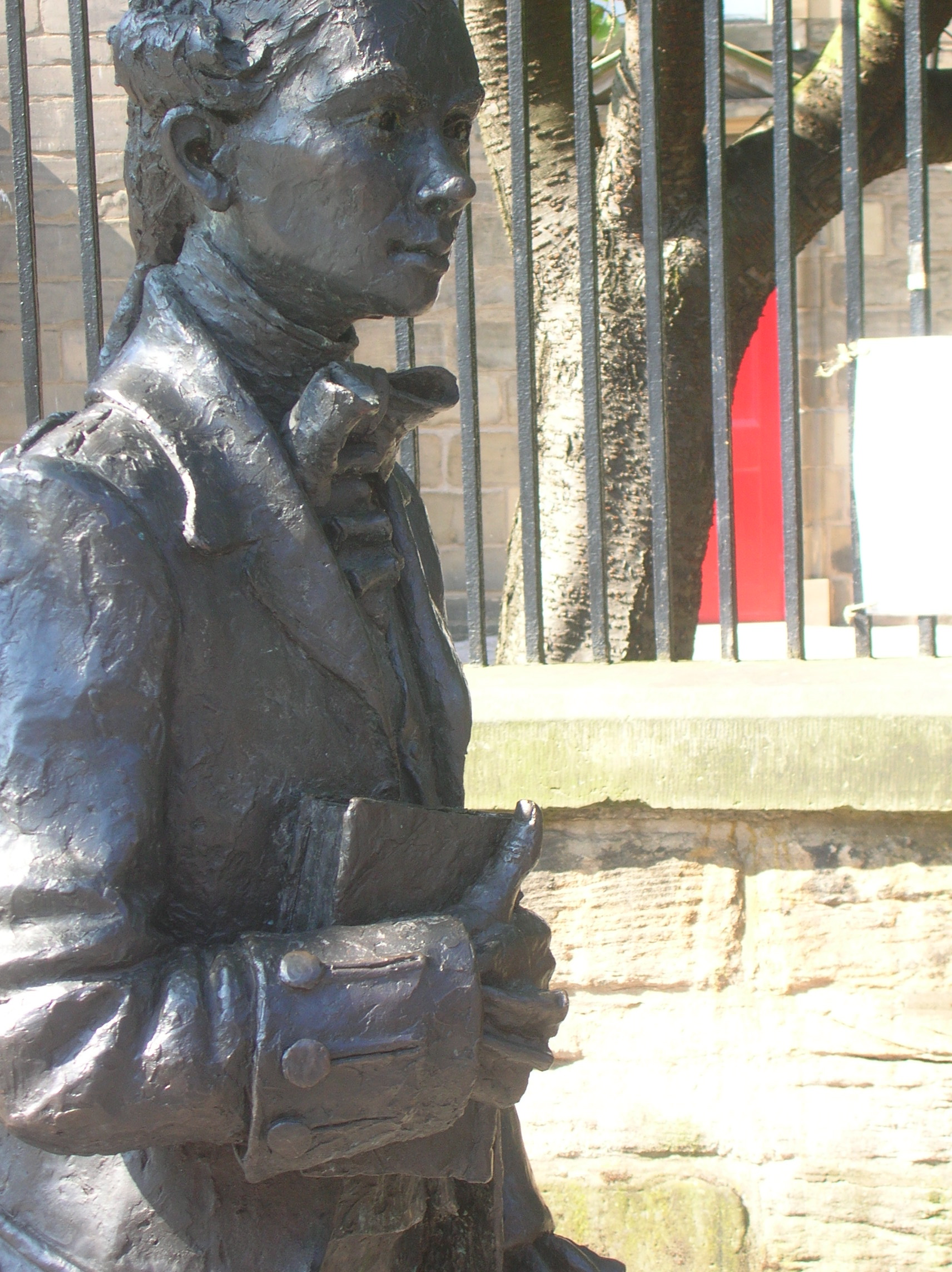 Statue of Robert Fergusson in Edinburgh.